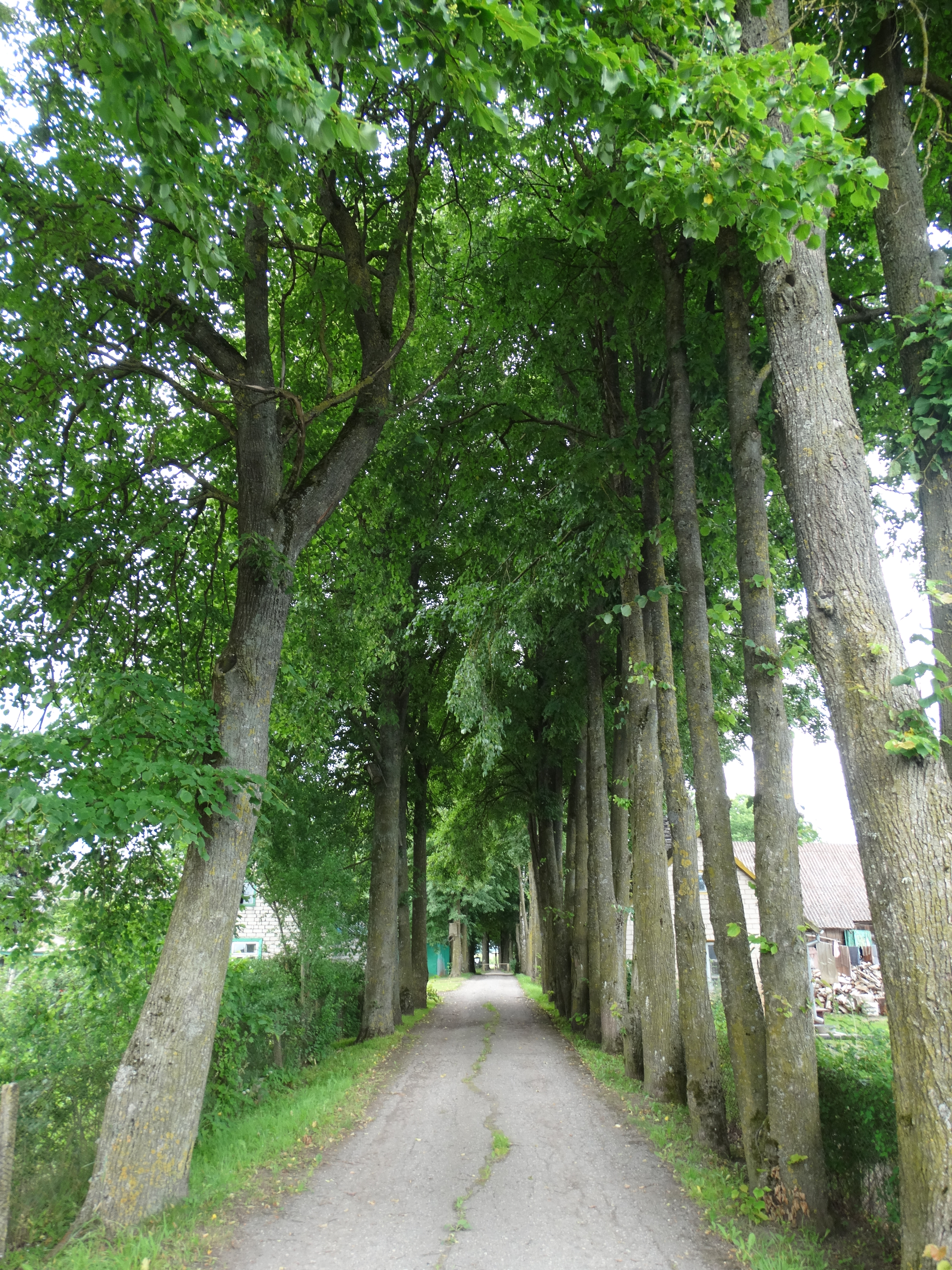 Gulbinėnai, Pasvalys district, Lithuania